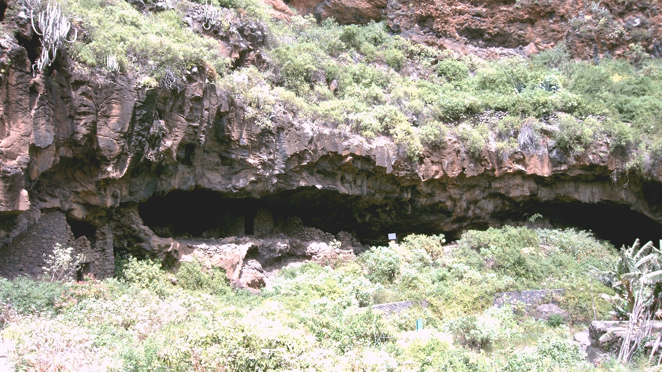 Cueva del Tendal in San Andrés y Sauces